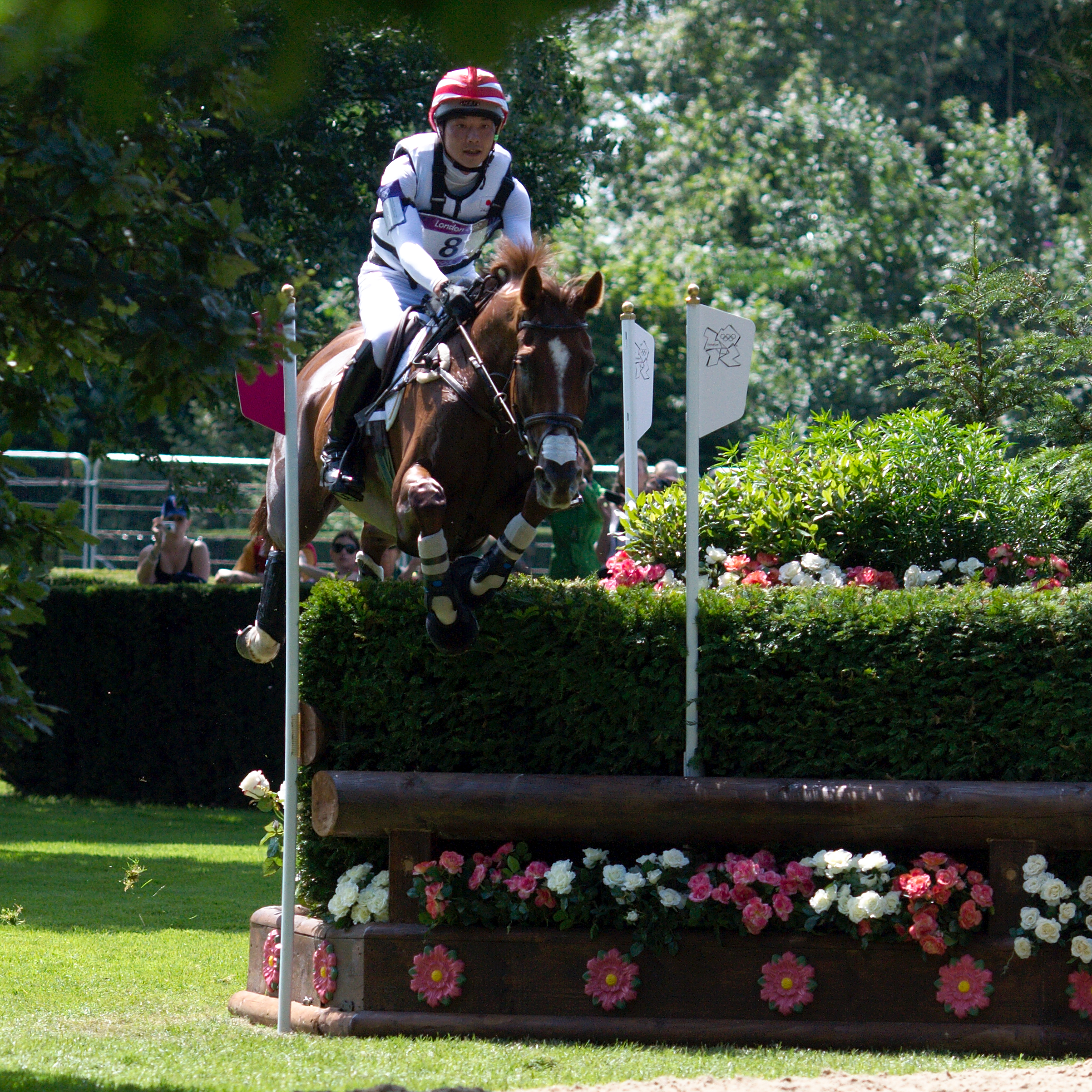 Toshiyuki Tanaka and Marquis De Plescop, competing for JPN, at fence 24, during the cross-country phase of the Eventing during the 2012 Olympic Games in Greenwich Park, London.